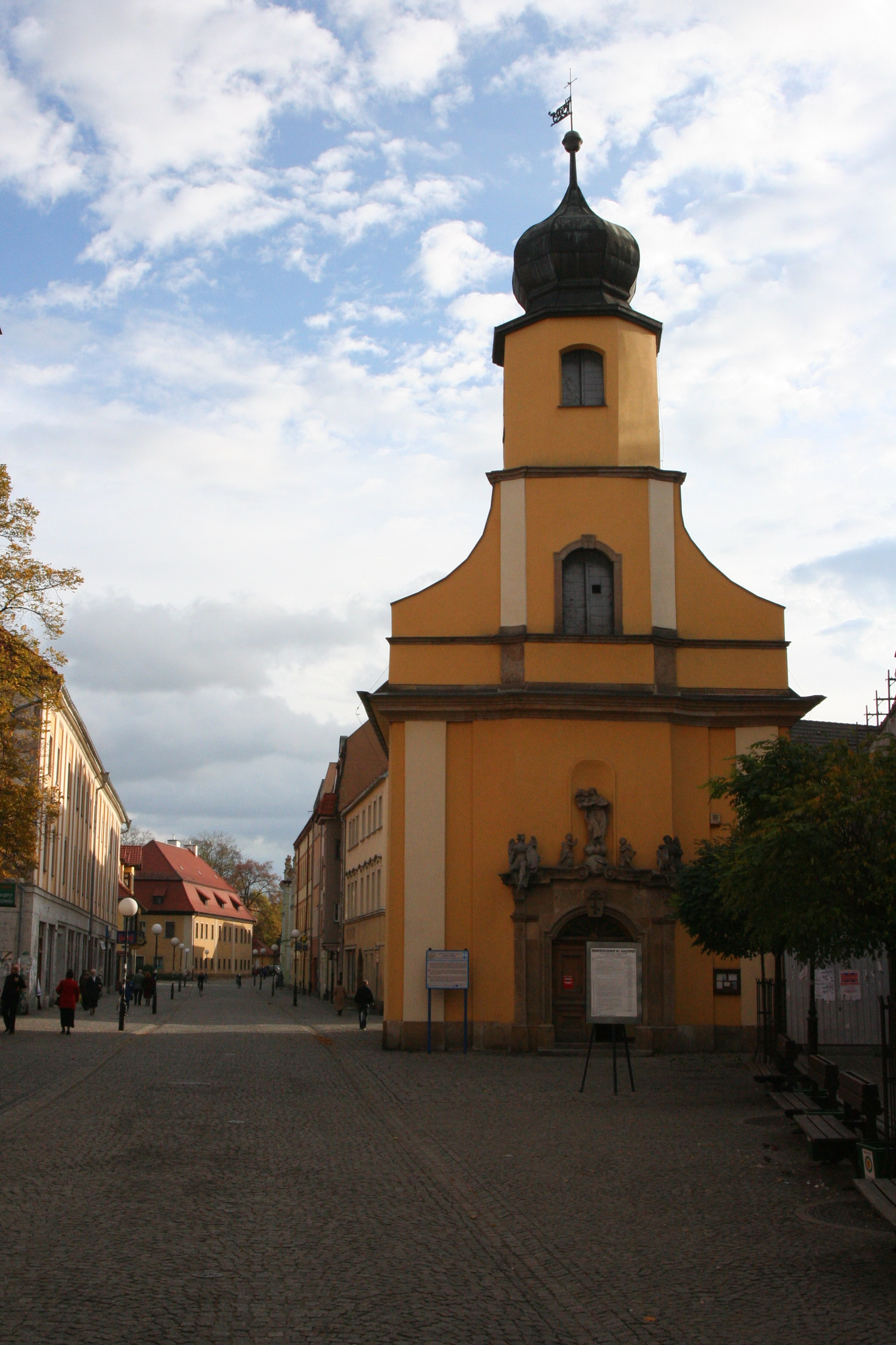 Orthodox church in Jelenia Gora, Poland.